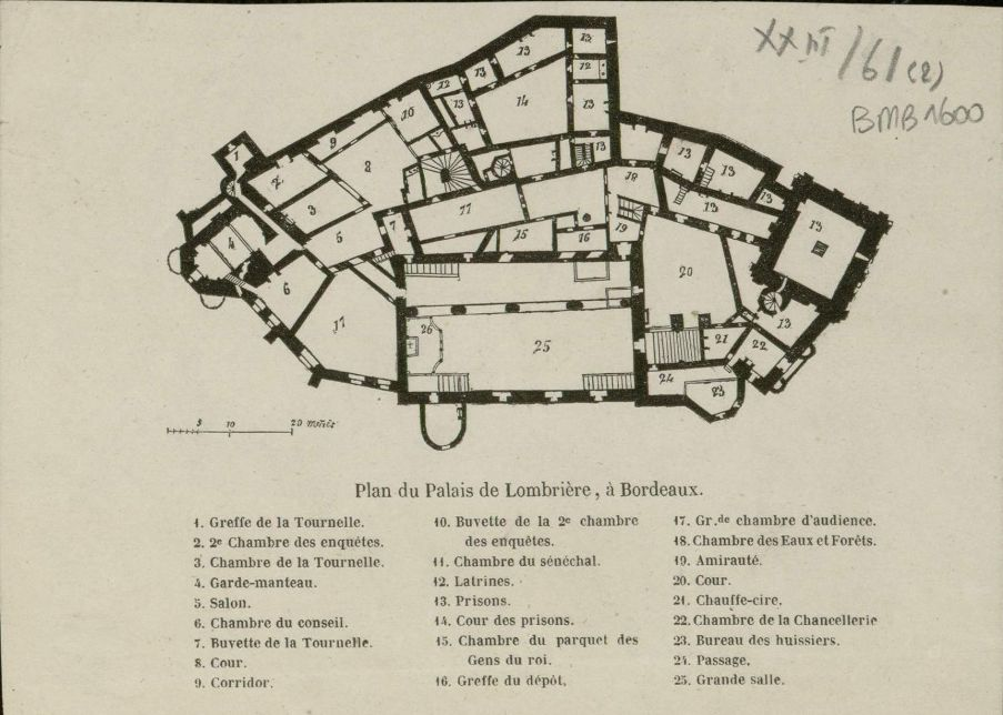 Map of the palais de l'Ombrière, from the Comptes-rendus de la Commission des monuments historiques de la Gironde (Bordeaux, France).